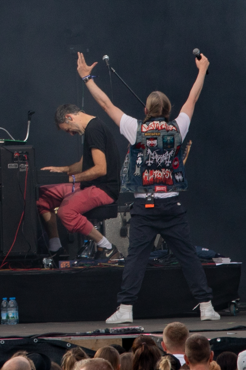 Romano at Fritz DeutschPoeten 2018